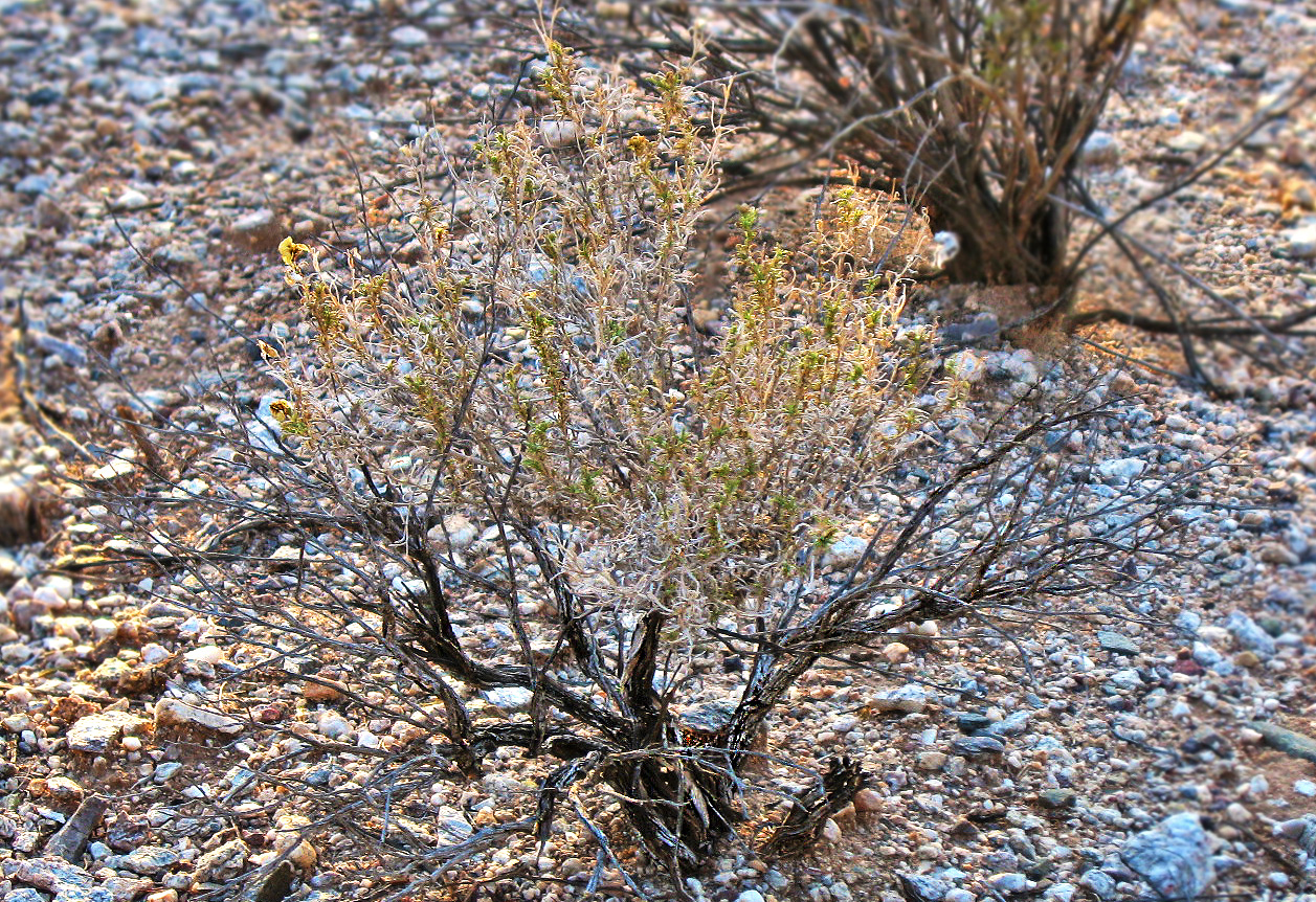 Zinnia acerosa in the Tucson desert, taken around the St. Francis area at the corner of Swan and River in Tucson, Arizona.